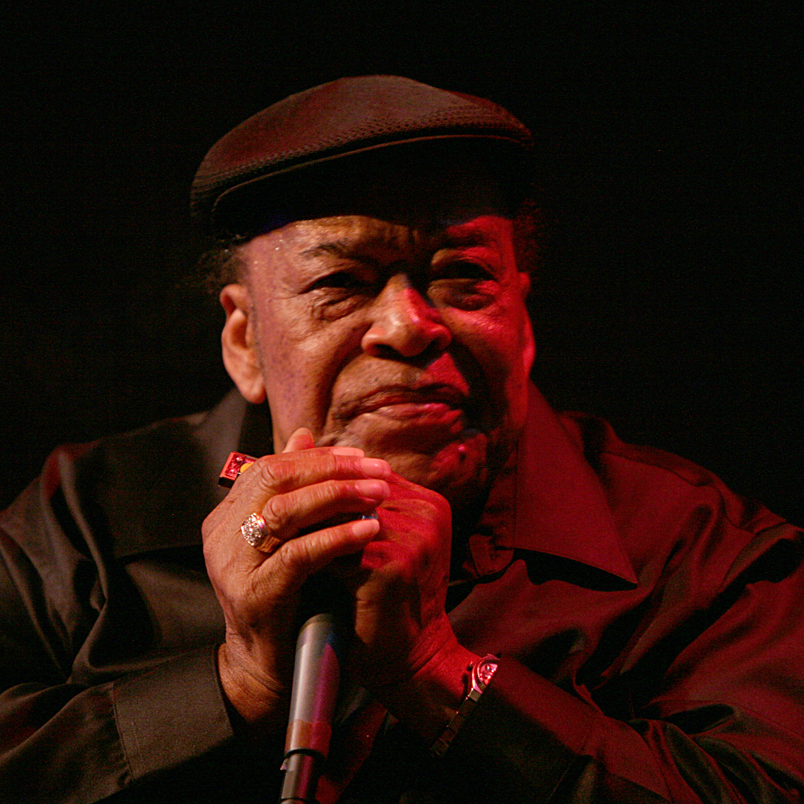 James Cotton 2007